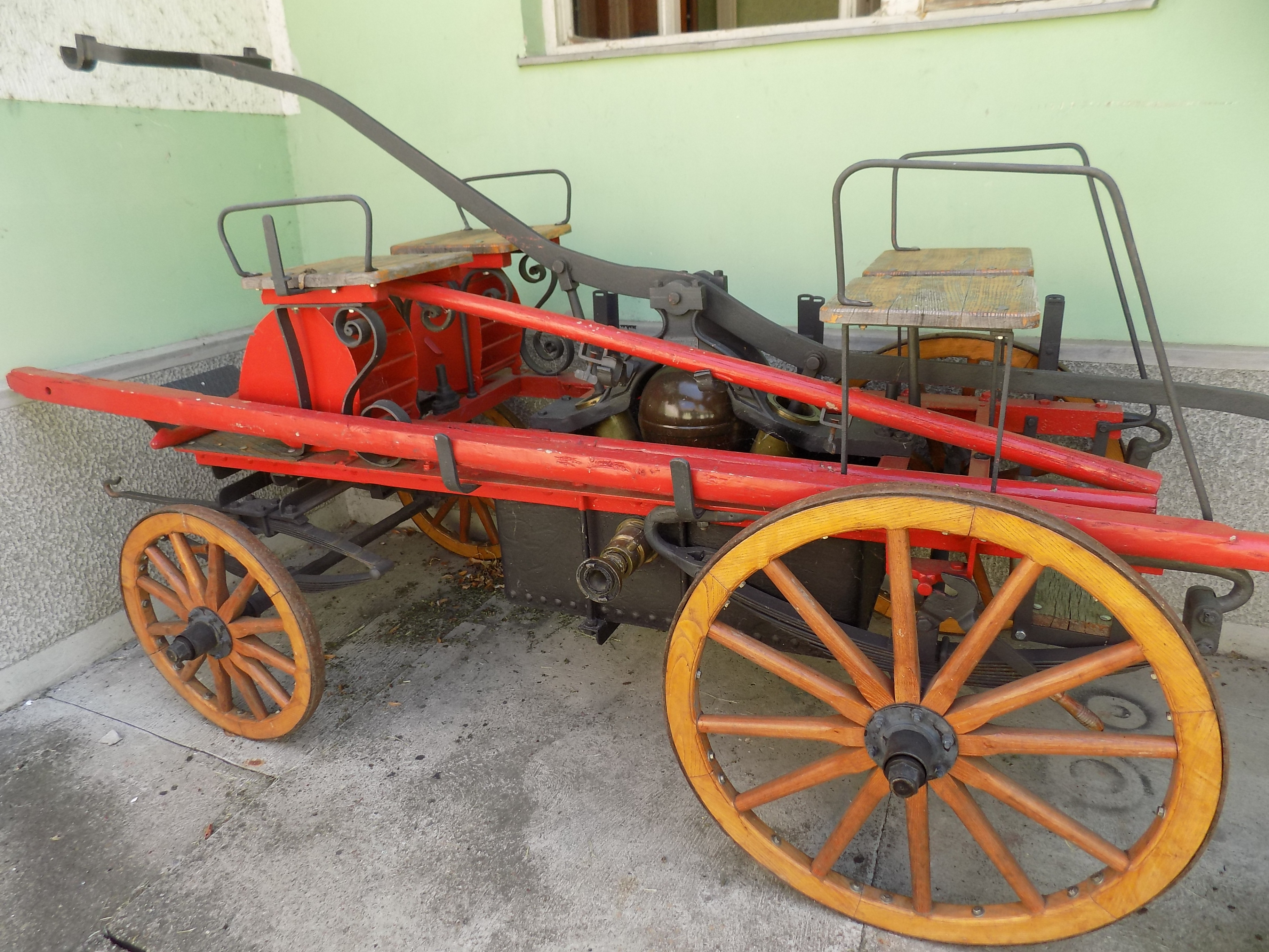 Fire brigade from 1904